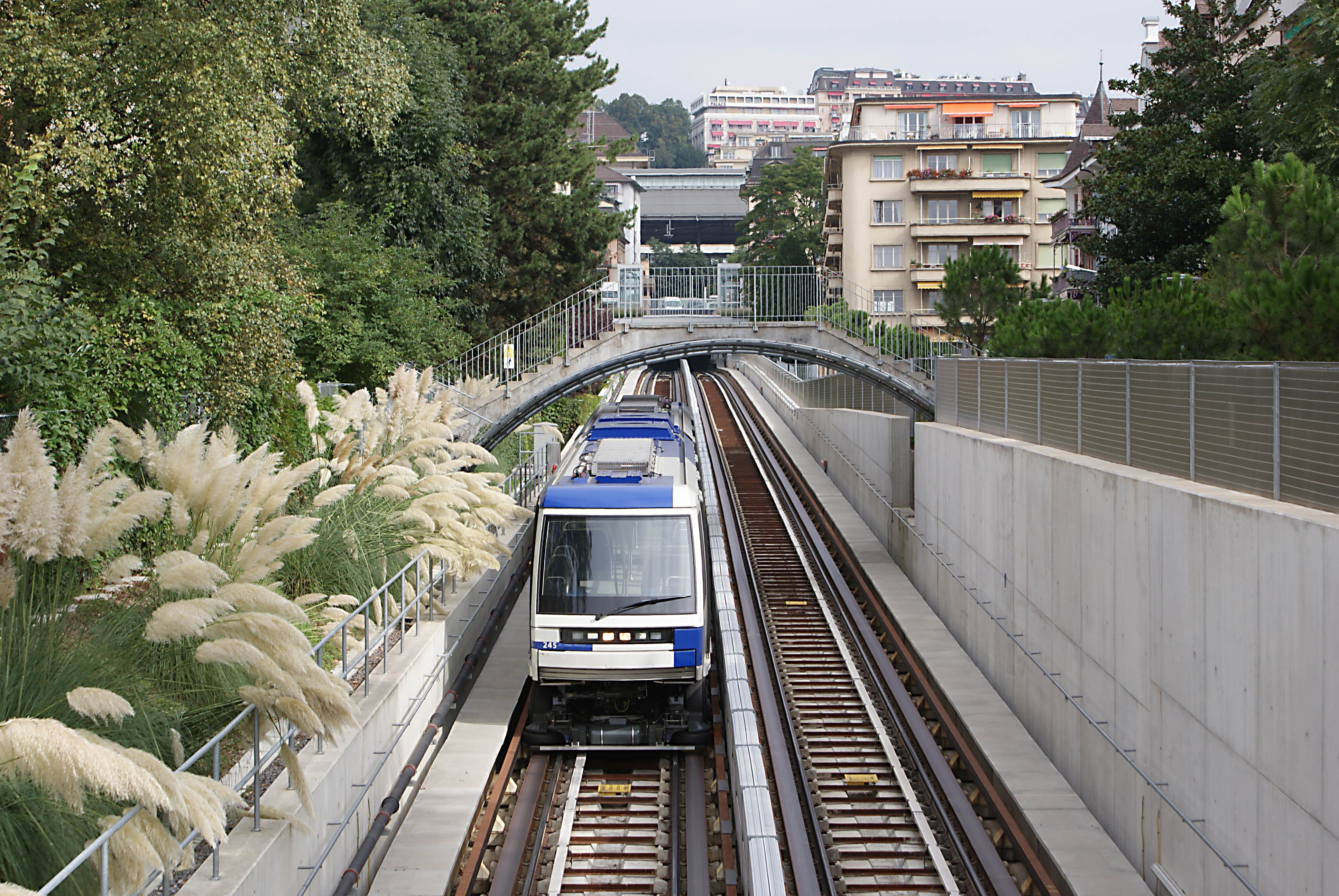 The M2.